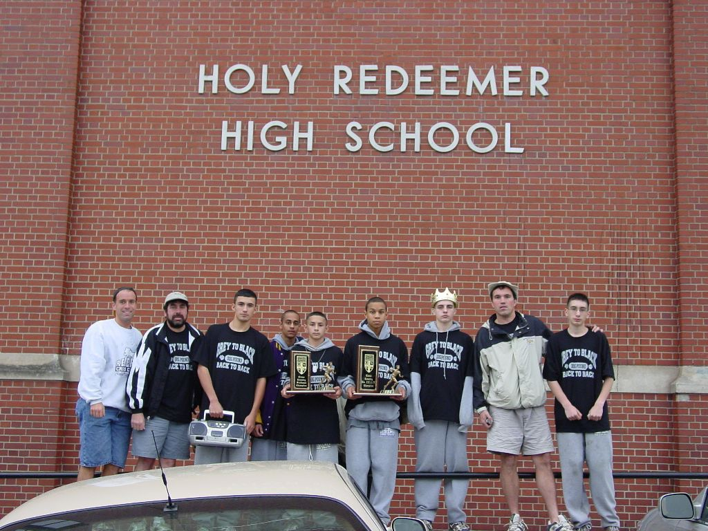 October 2005, Final cross-country team-League Champs who never had a chance to defend their title.